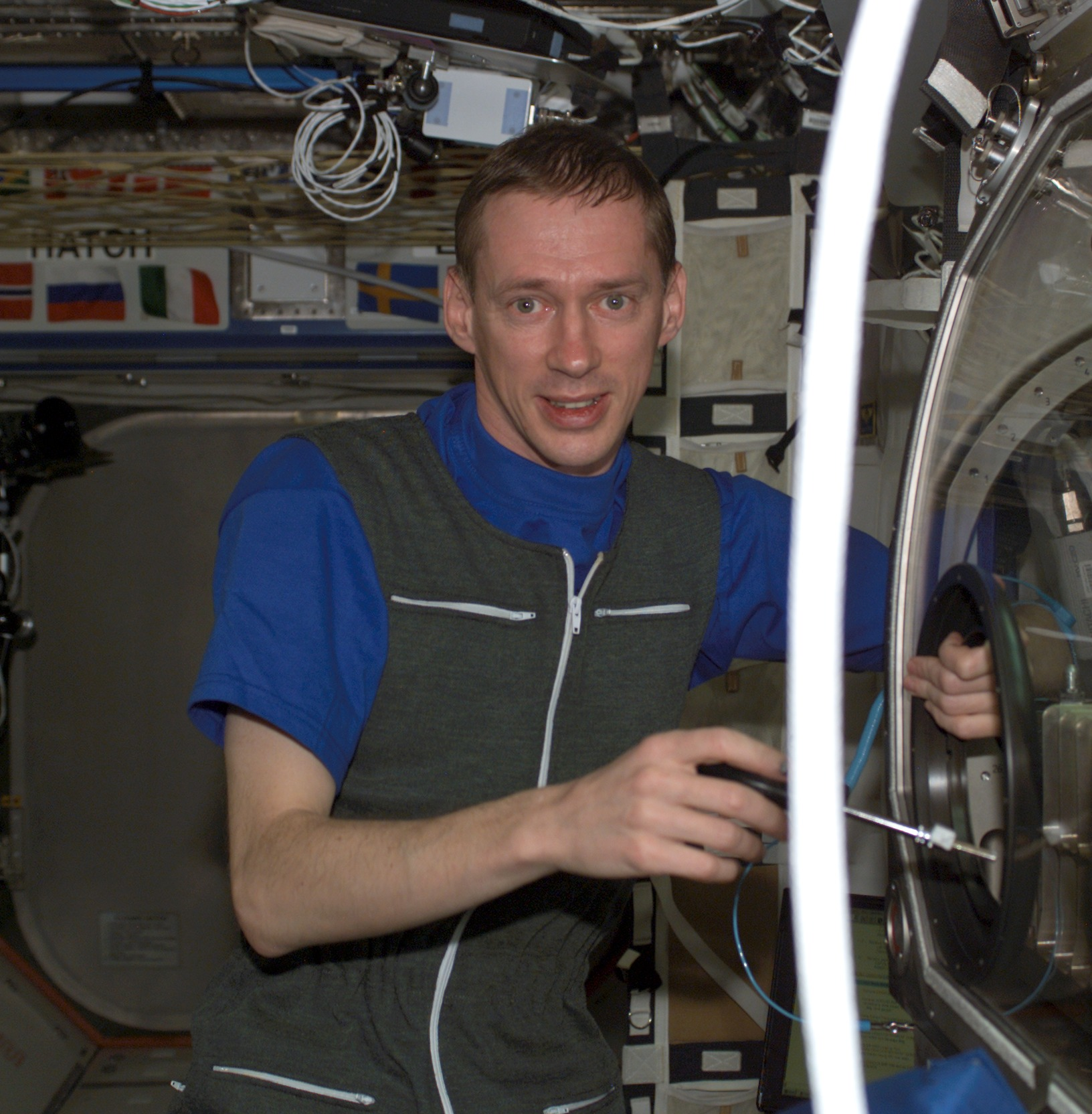 Frank De Winne works with the Microgravity Science Glovebox (MSG) on board the International Space Station during the Odissea Mission.